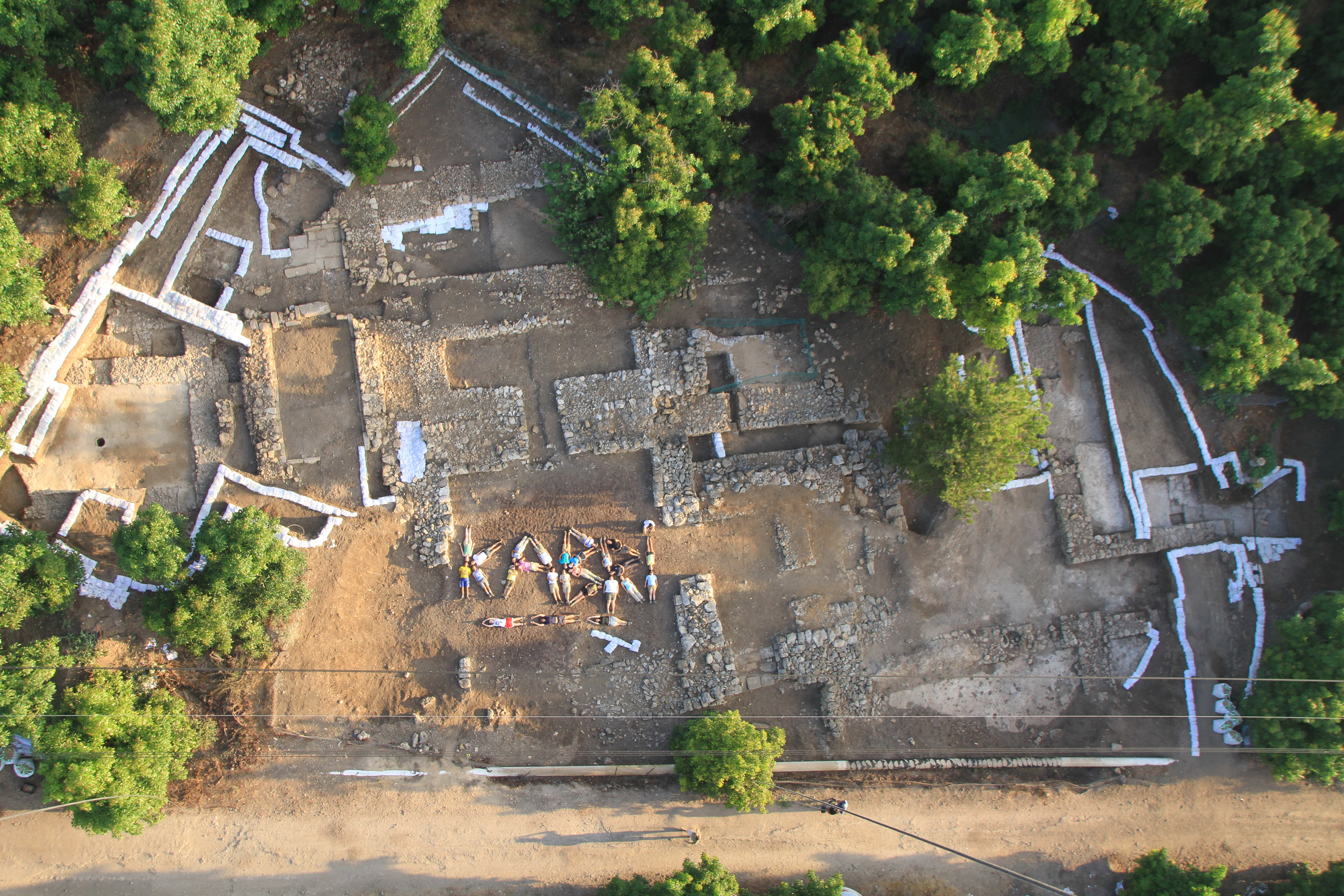 An aerial photograph of the palace of Tel Kabri taken at the conclusion of the 2013 season of excavation. The Tel Kabri Expedition team is lying down on the covered-over plaster floor of Ceremonial Hall 611, and they are spelling out the name of the site. The picture also gives a complete overhead view of all known parts of the palace proper as of 2013. The areas included in this photo are Areas D-West, D-West East, and Area D-North.